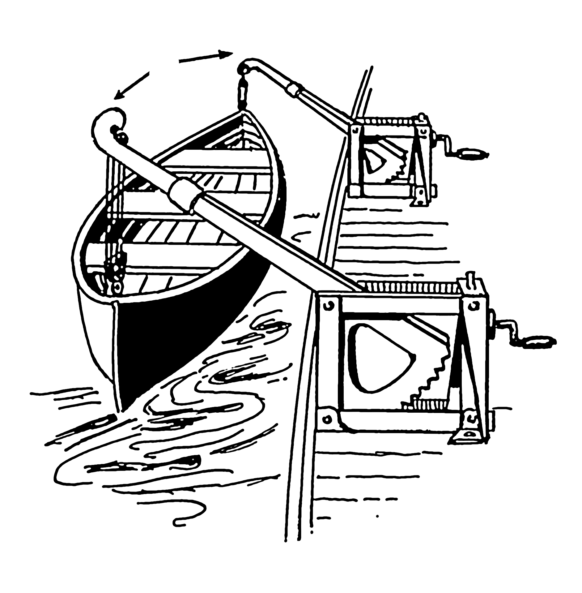 Line art drawing of davits.